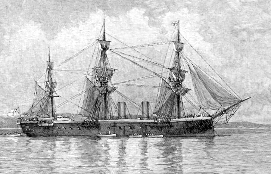 Image of HMS Inconstant.